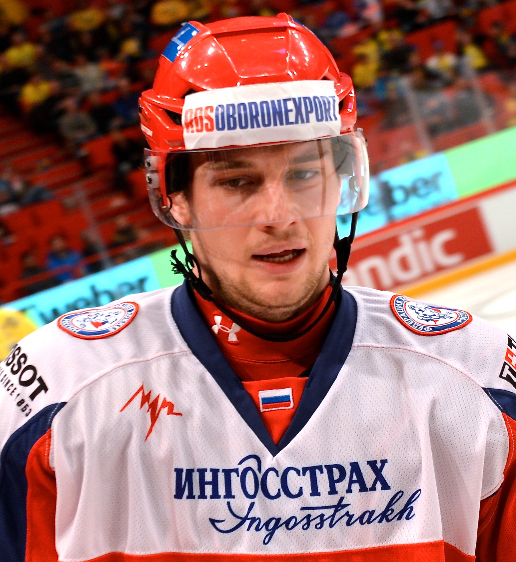 Egor Yakovlev during Oddset Hockey Games against Russia (2-0) at the Ericsson Globe in Stockholm on May 4th, 2014.